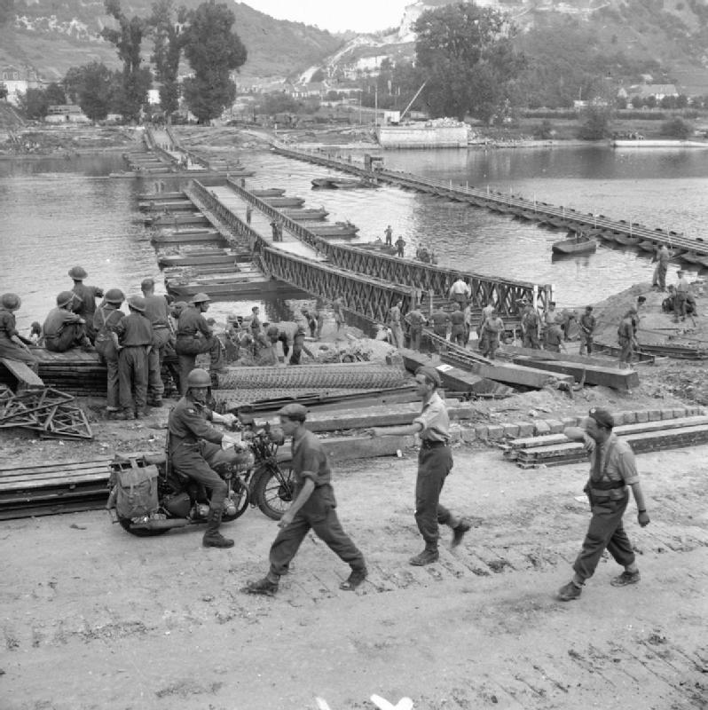 The British Army in North-west Europe 1944-45 Pontoon bridges over the River Seine at Vernon, 28 August 1944.